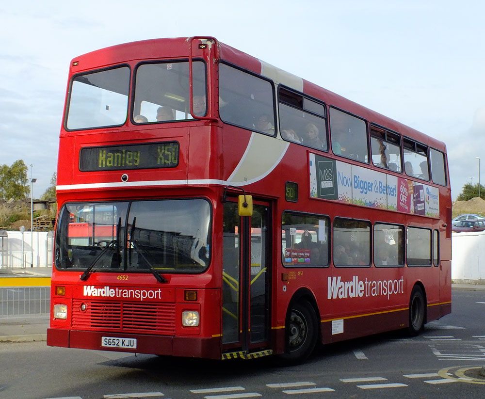 Wardle Transport 4652 (S652 KJU), a Volvo Olympian with Northern Counties' Palatine bodywork formerly of Arriva Fox County.